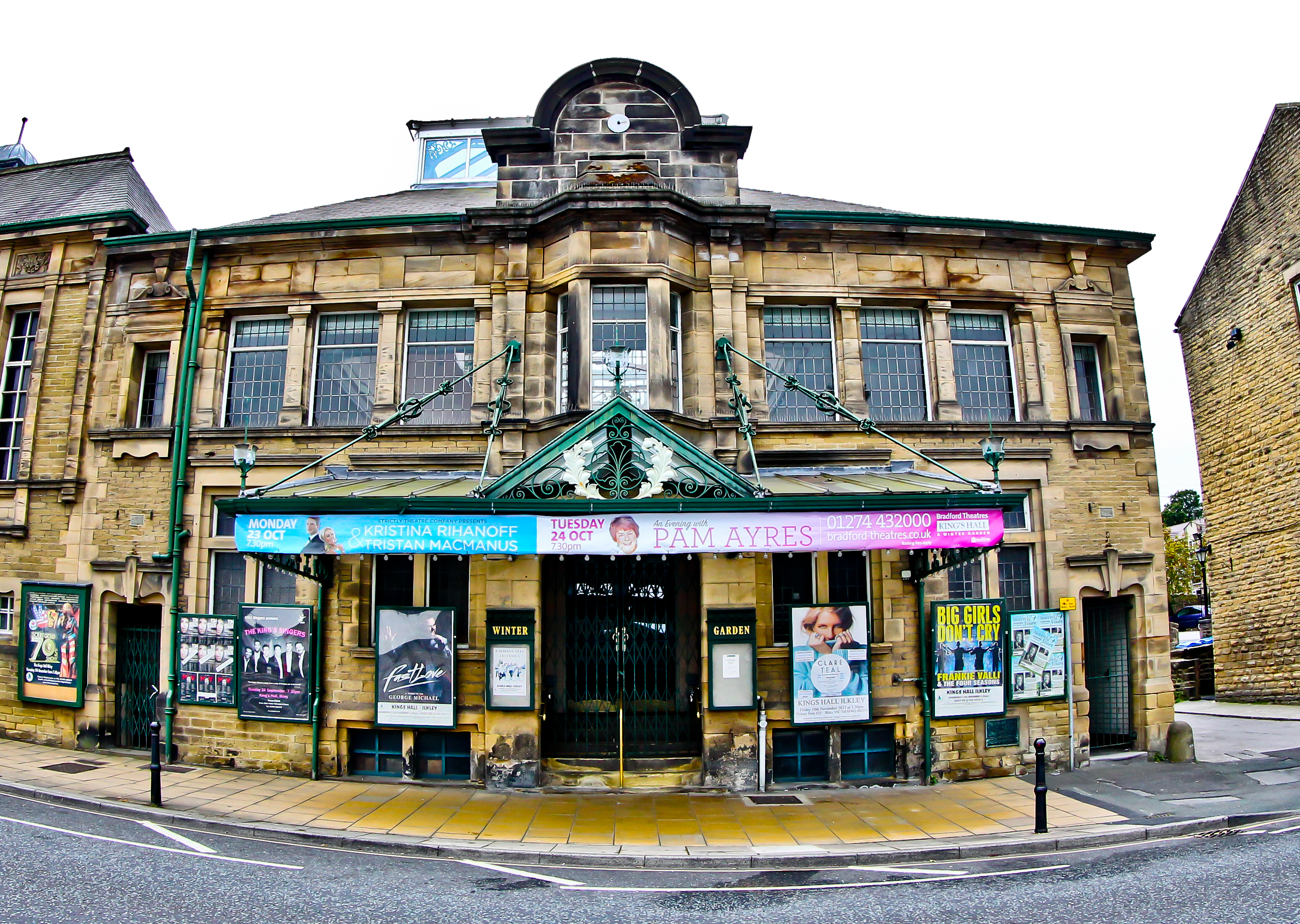 Winter Garden Wikidata has entry Q26587879 with data related to this item.